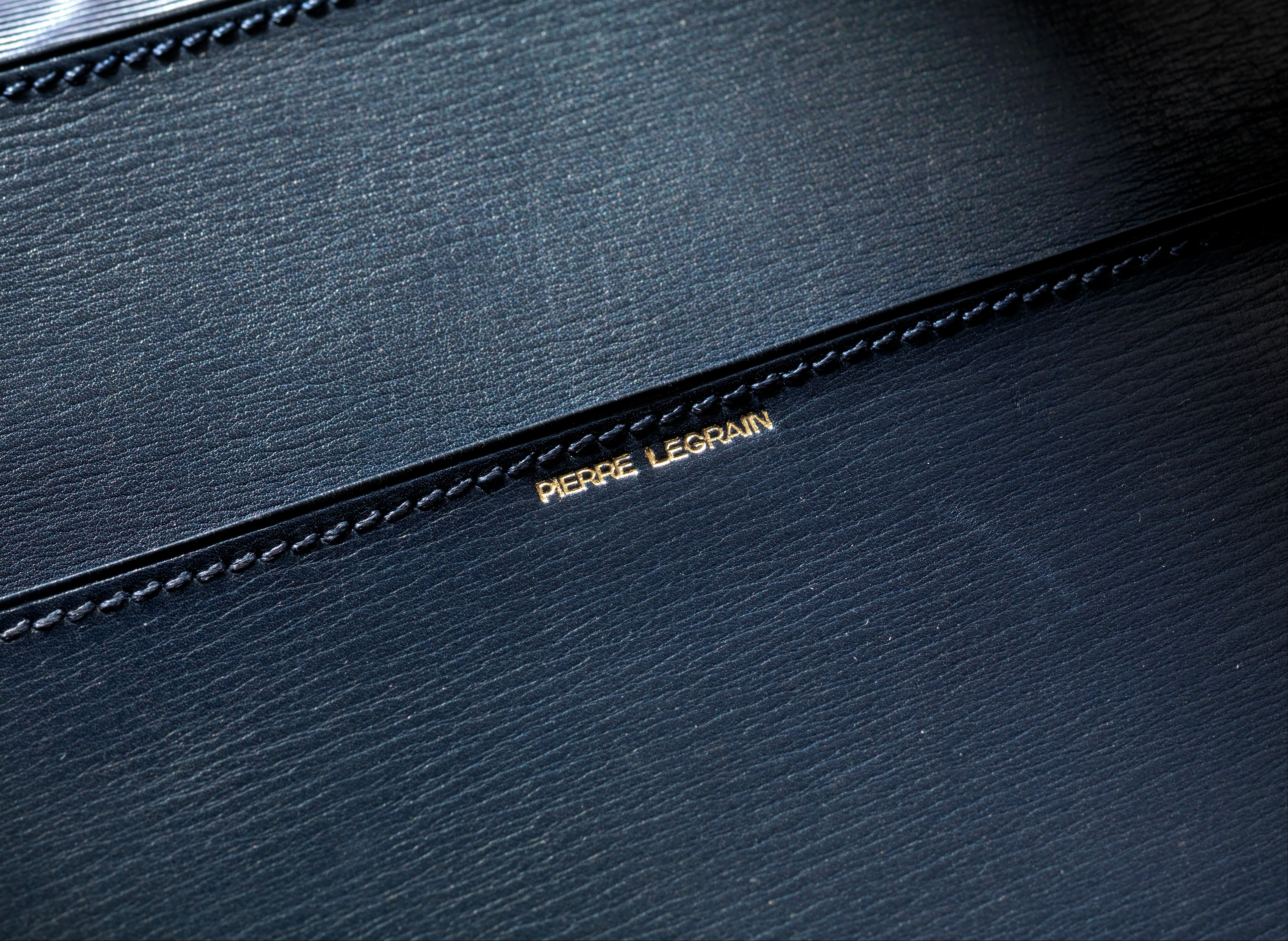 Portfolio designed by Pierre Legrain. Detail : Signature on the interior pocket, stamped in gold : PIERRE LEGRAIN. For more information